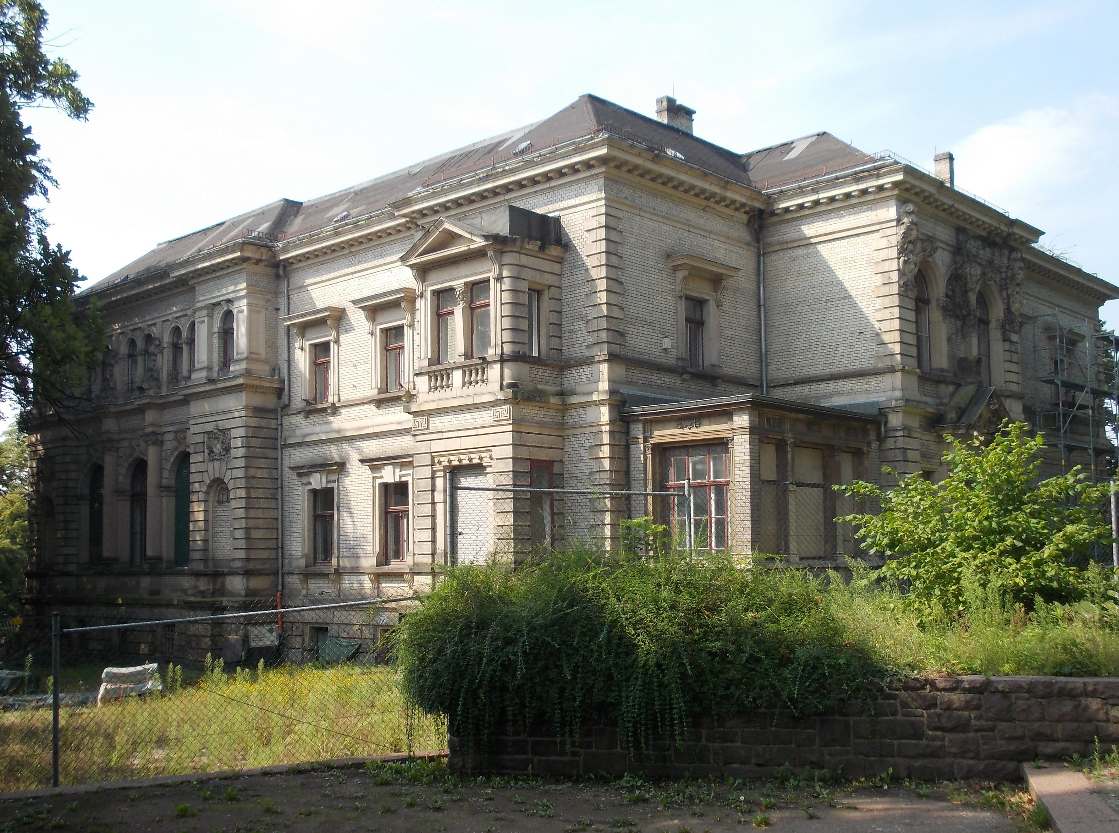 Villa Lehmann in Halle/Saale (Saxony-Anhalt)